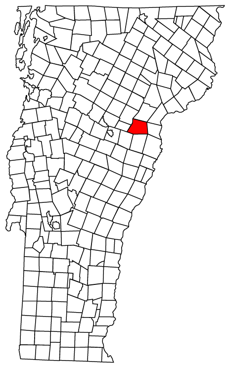 Description: Map of Vermont towns with Groton highlighted Source: Map created by Jared C. Benedict on 26 March 2004. Copyright: © Jared C. Benedict.